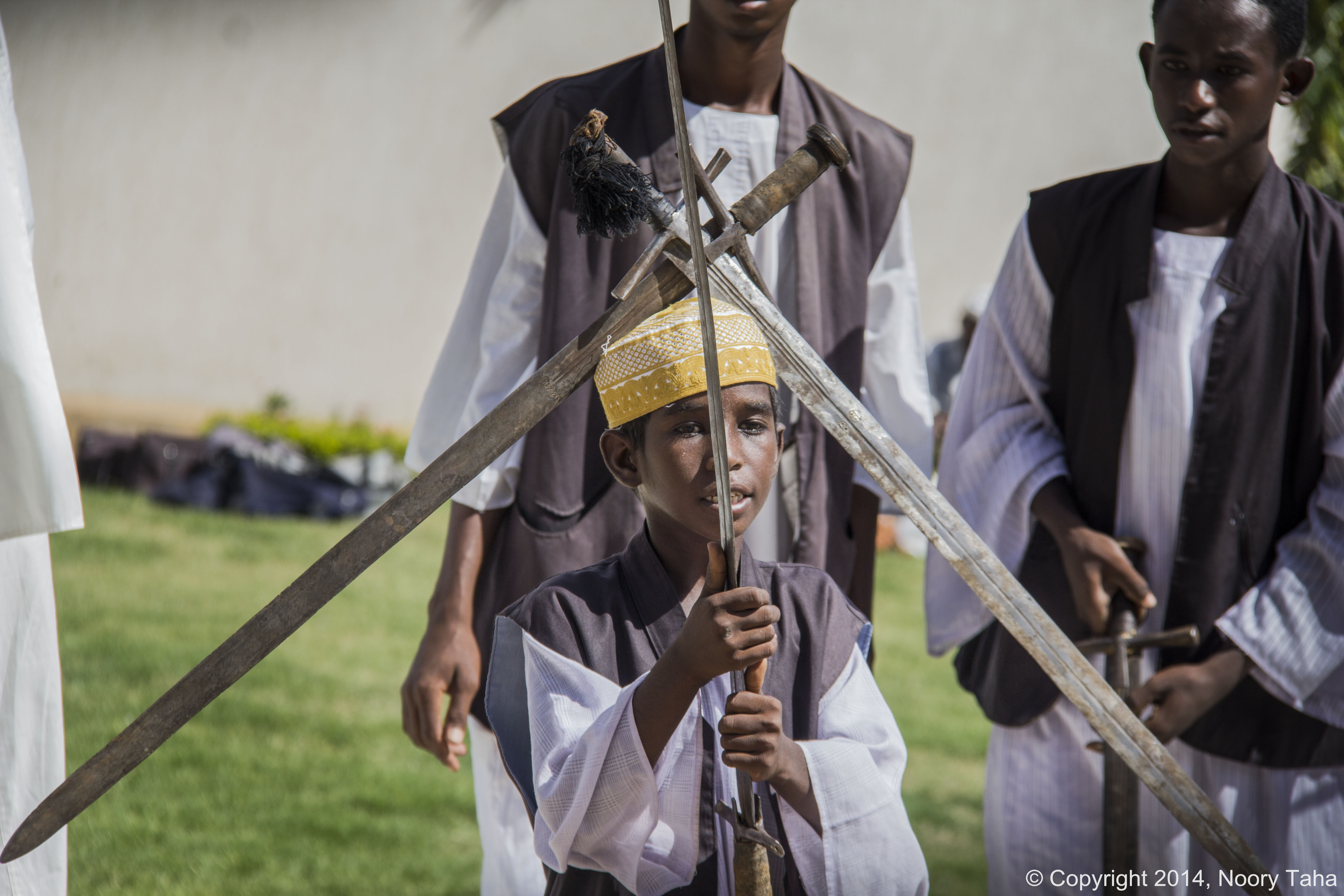 Sudanese traditional dance, kid dance with Swords This is an image of food from Sudan